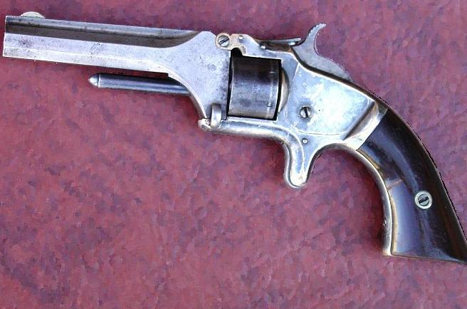 Model 1 Second issue .22 rimfire revolver c post 1857